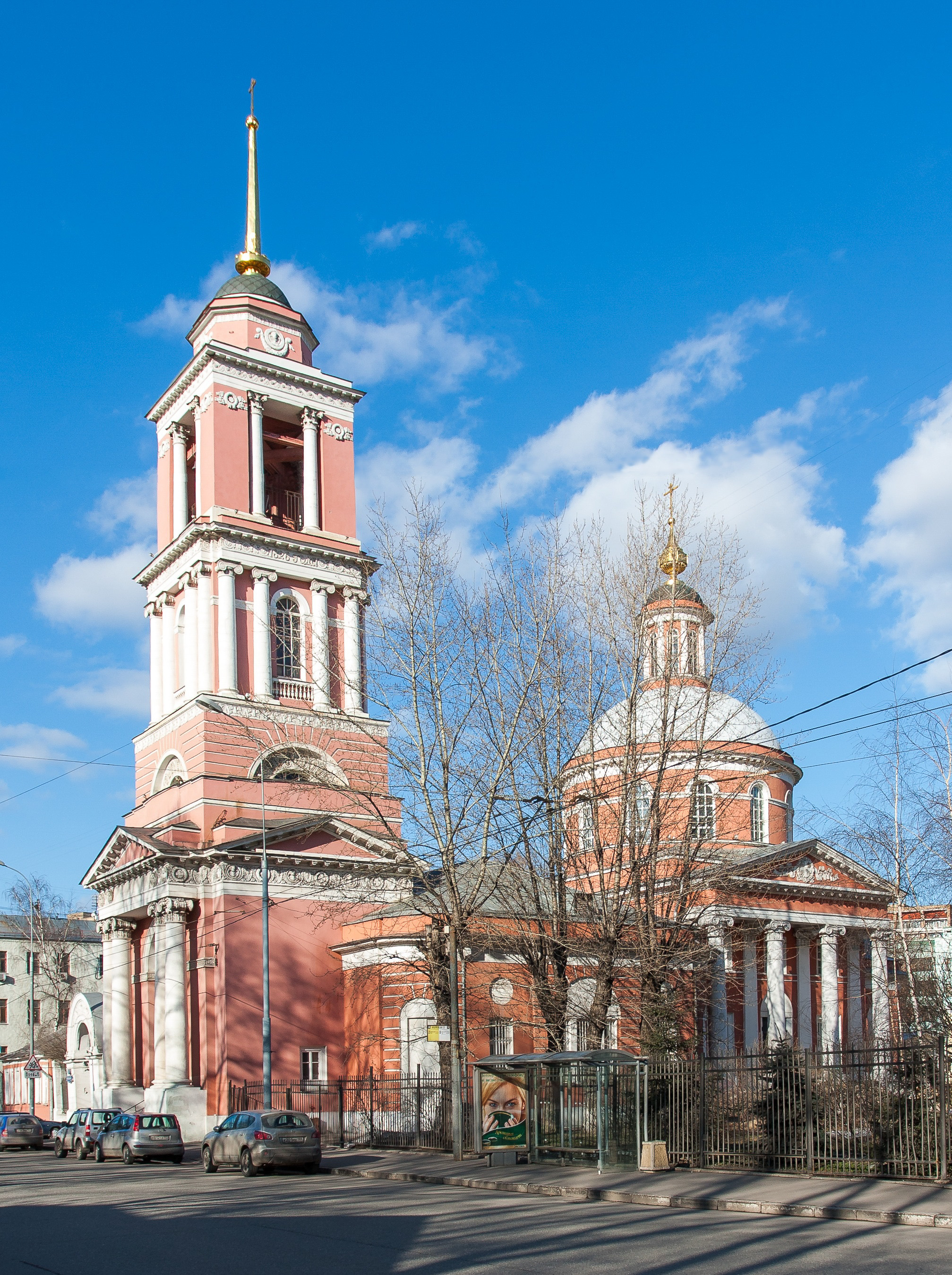 Holy Trinity Church in Vishnyaki (Moscow, Russia)